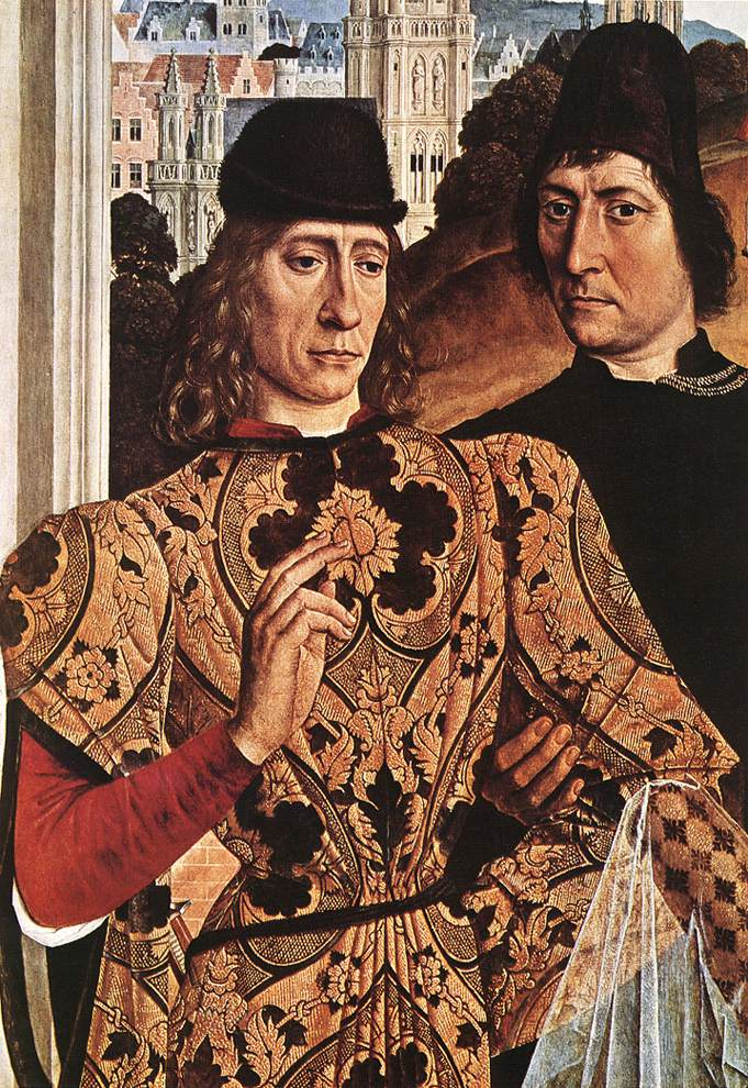 Justice panel:The Ordeal by Fire (Detail)